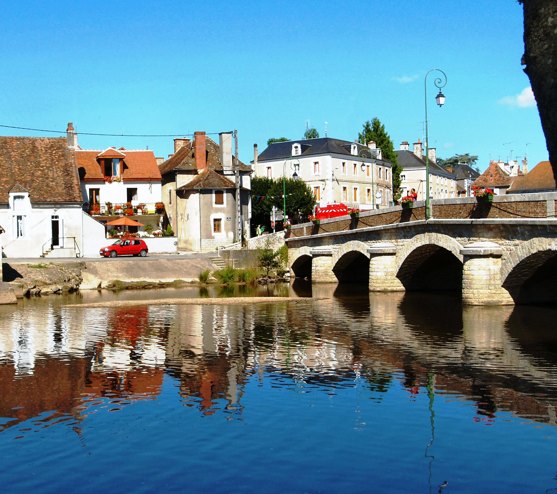 La Trimouille. River Benazie, taken from the park on Bastille Day 2008